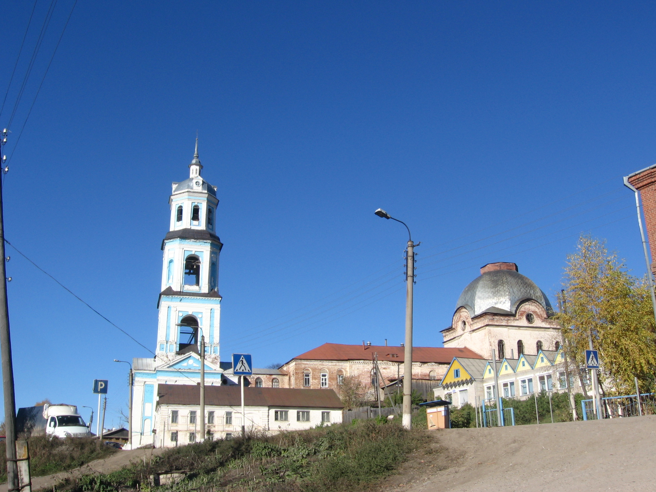 The orthodox church of the Ascension in Suna, Kirov region, Russia